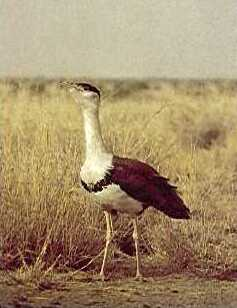 Self created Image of Great Indian Bustard Ardeotis nigriceps